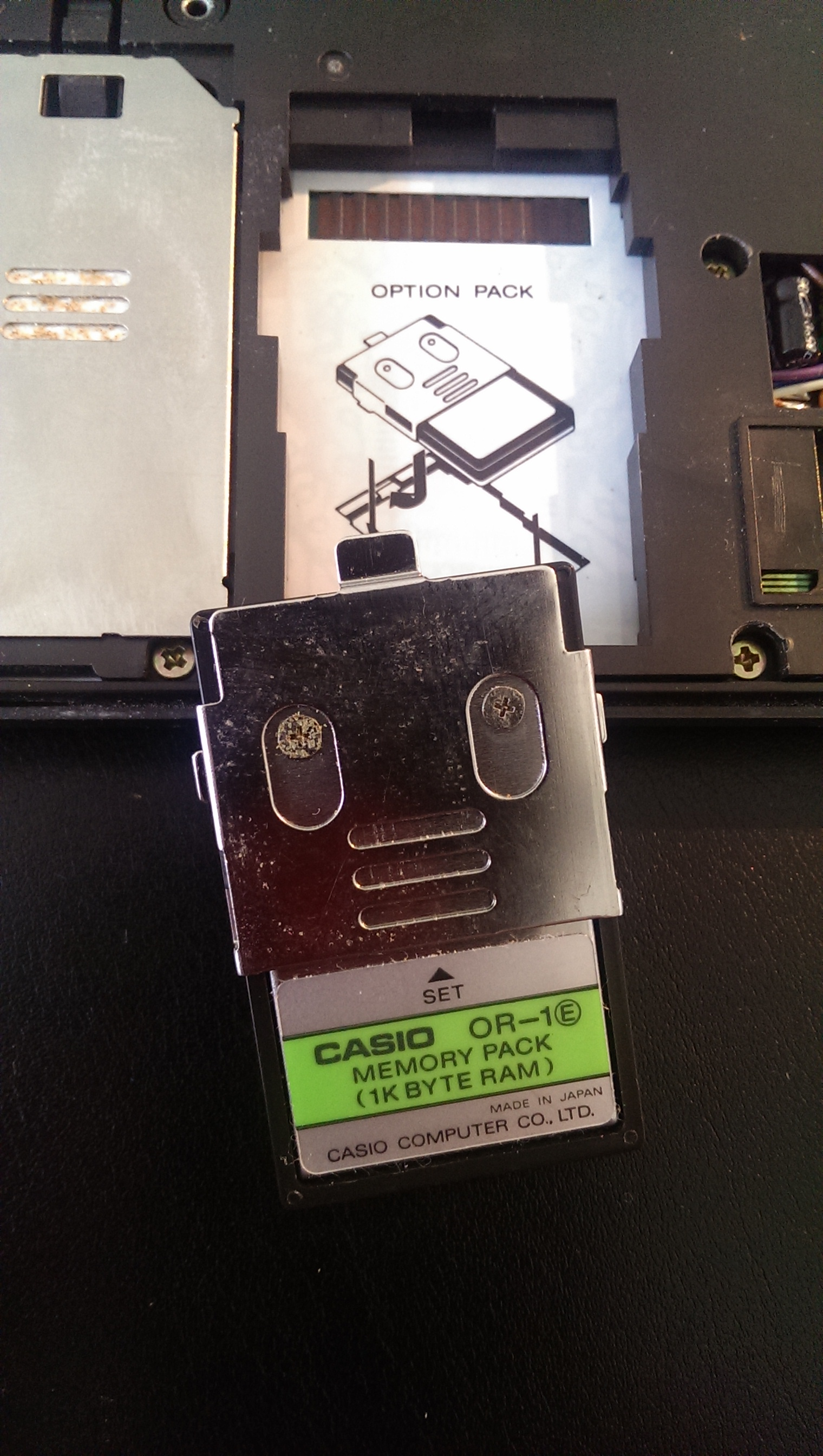 Pocket Computer